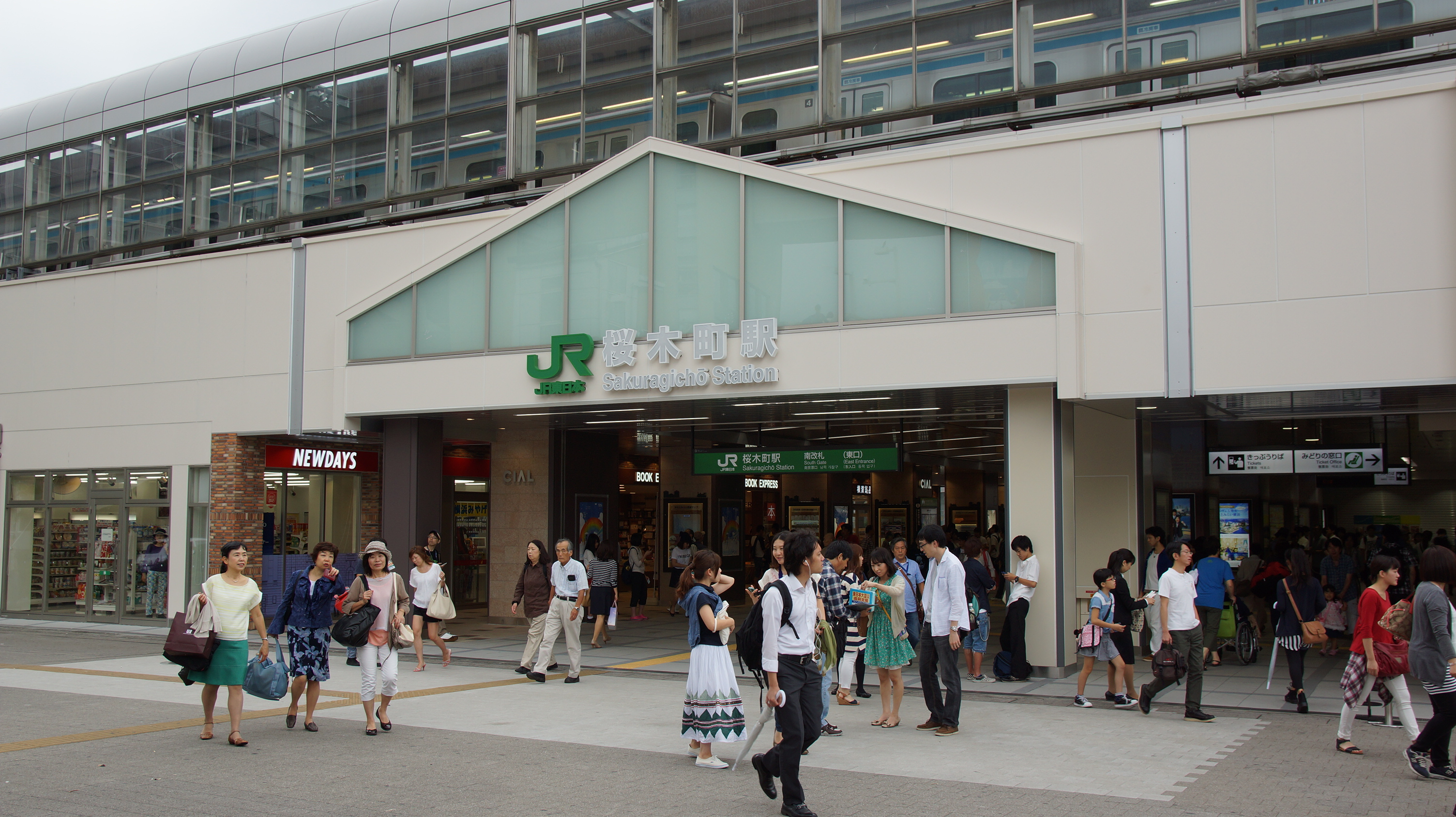 The south-east entrance of Sakuragicho Station on the Negishi Line